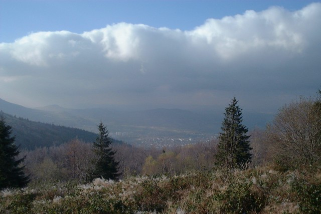 Poland, Ustron - view of the city from Rownica hill.